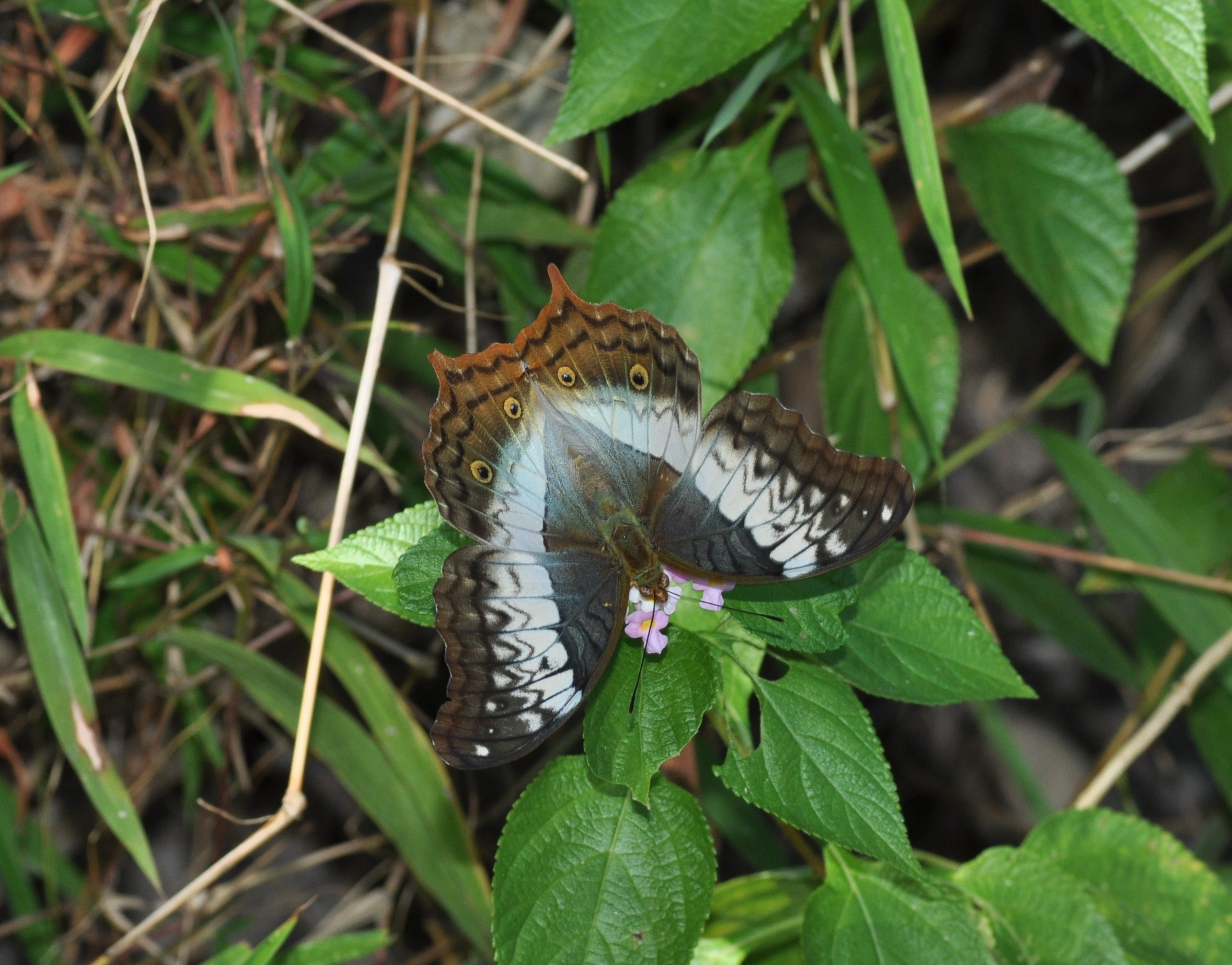 This image was taken in the project Wiki Loves Butterfly. Open wing of female Vindula erota Fabricius, 1793 – Cruiser